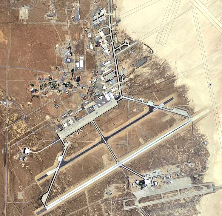 Aerial view of Edwards Air Force Base, in the Mojave Desert of Southern California.